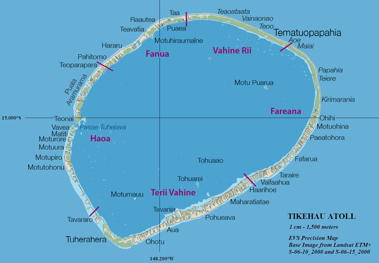 Tikehau Atoll (1:150,000), labelled